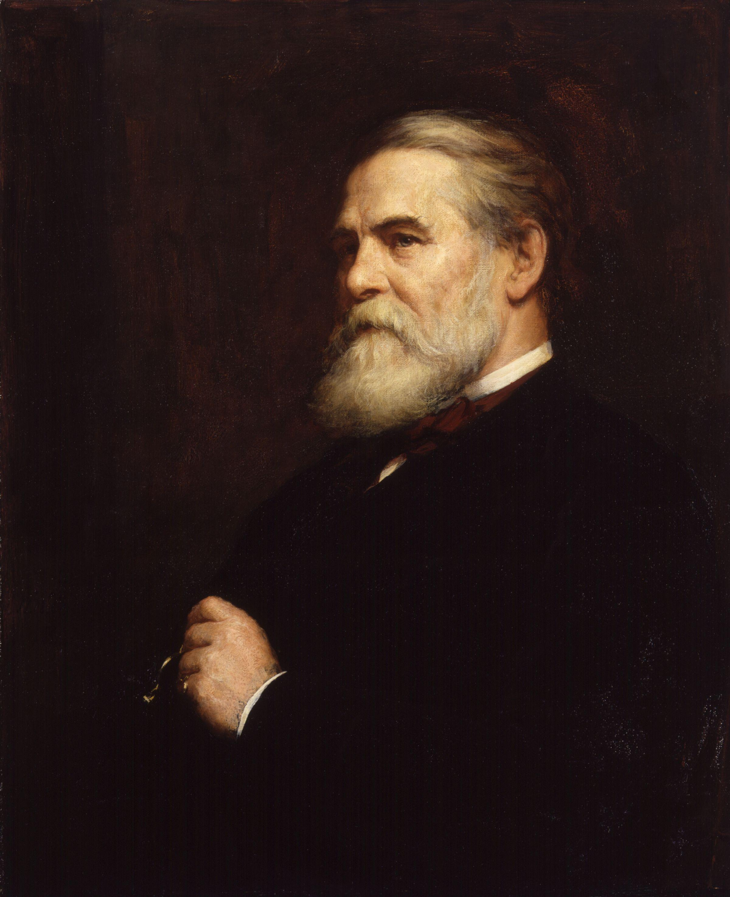 John Loughborough Pearson, by Walter William Ouless (died 1933). All images in this batch have been confirmed as author died before 1939 according to the official death date listed by the NPG.